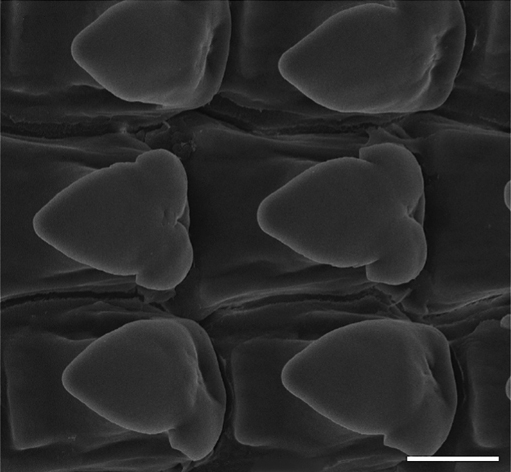 Radula of Oospira (Atractophaedusa) smithi: central tooth with adjoining lateral teeth 1. Locality: Vietnam, Haiphong Province, Cat Ba Island, near entrance of the Trung Trang Cave, 6.iv.2001, 20°47.38'N. 106°59.87'E. Scale bar 10 µm.